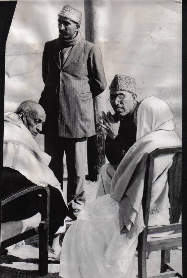 "Sheik Mohammed Abdullah (right), chosen to head interim government in Indian-occupied sector, confers with Sardar Patel, deputy premier. Bakshi Ghulam Mohammad is standing." A photo from the San Francisco Examiner, 1949